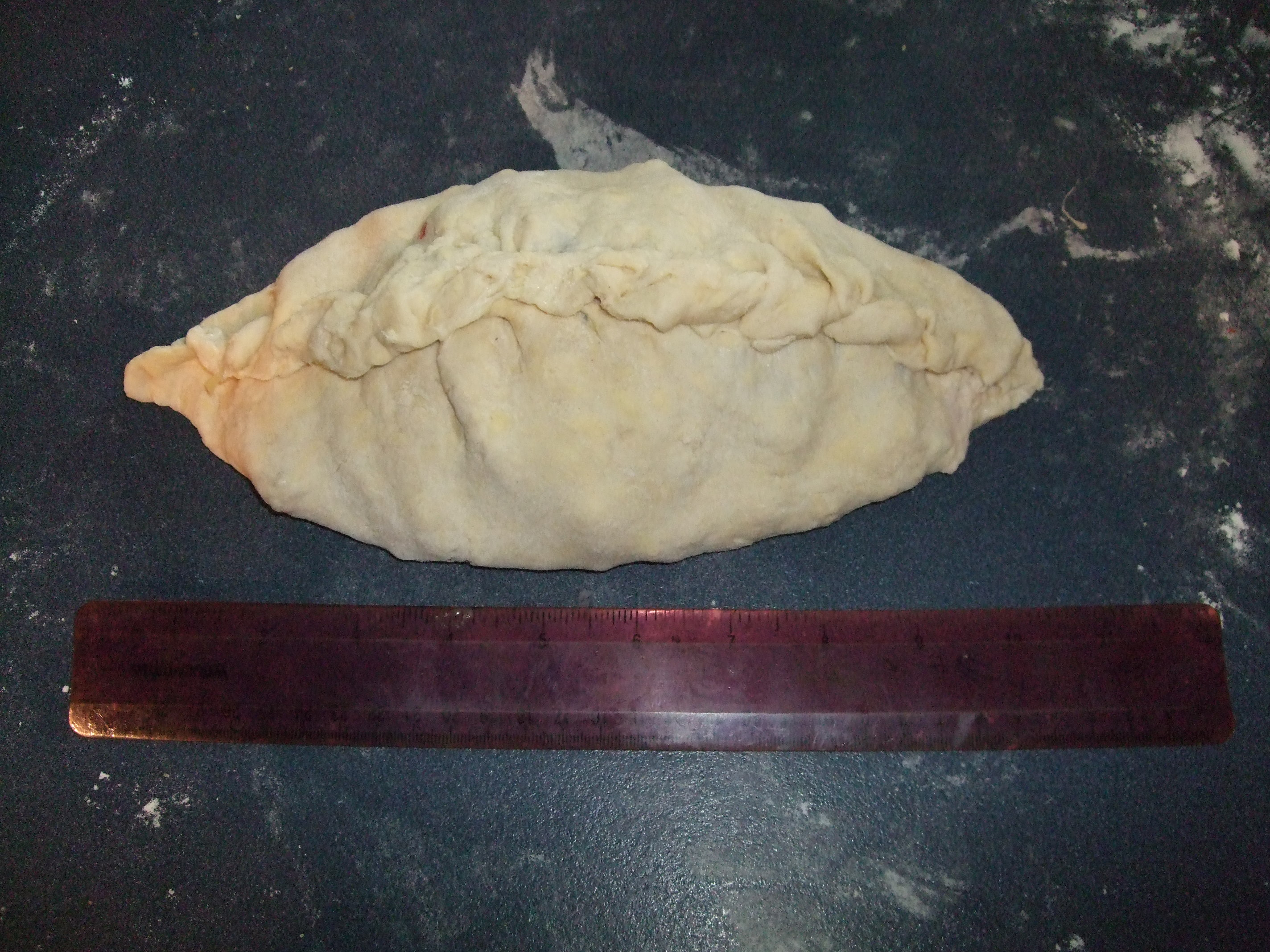 An uncooked pasty showing the top crimp